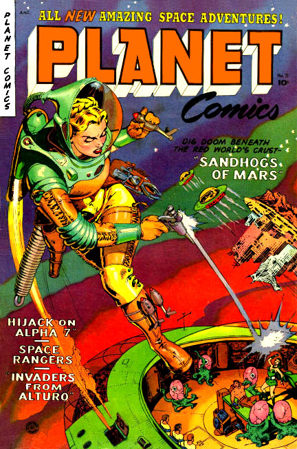 Cover scan of Planet Comics, issue 71, Fiction House, 1953. Space Rangers strip with art by Bill Discount.